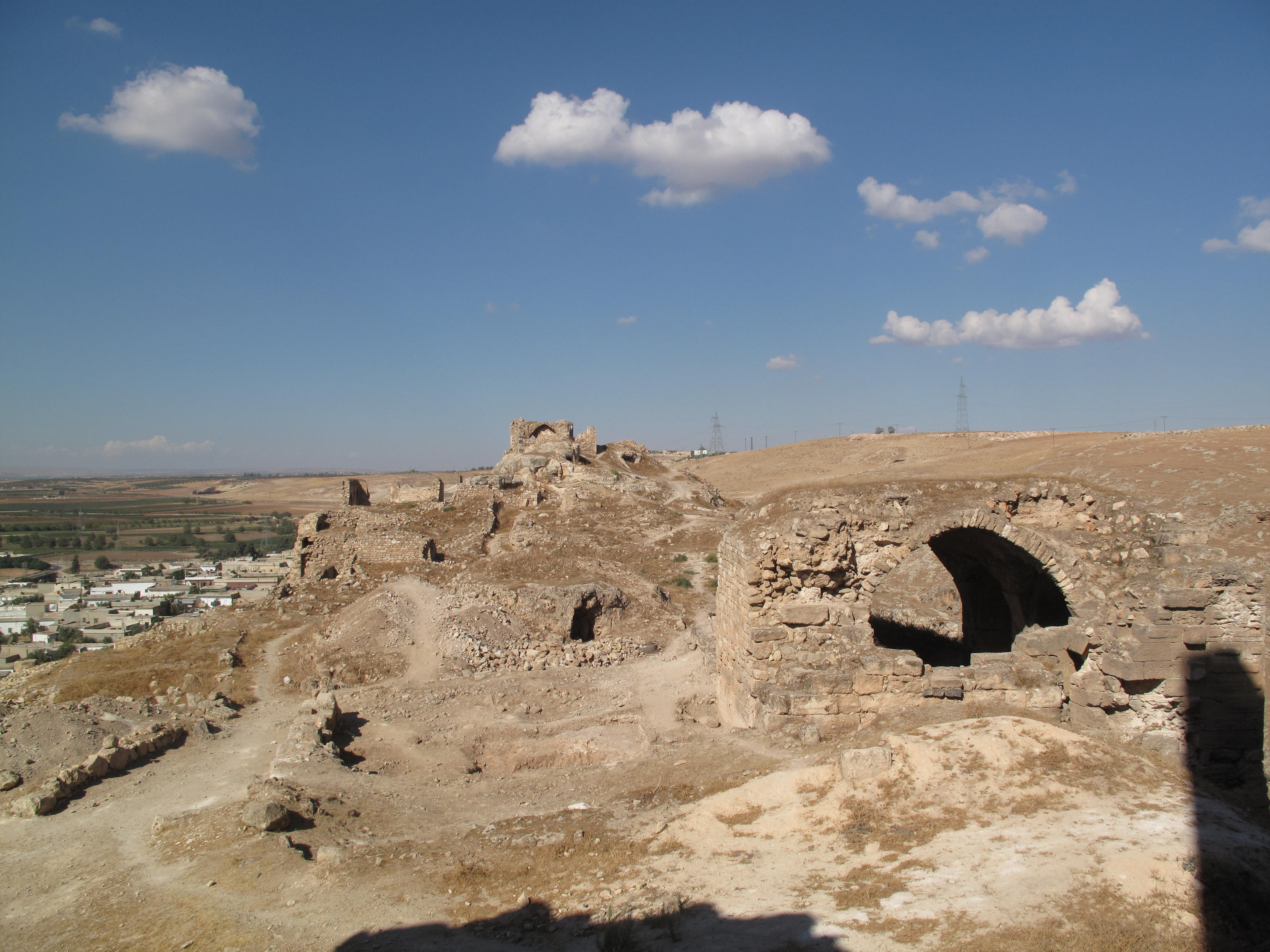 The citadel of Shaizar in Syria, seen from the southern tower.